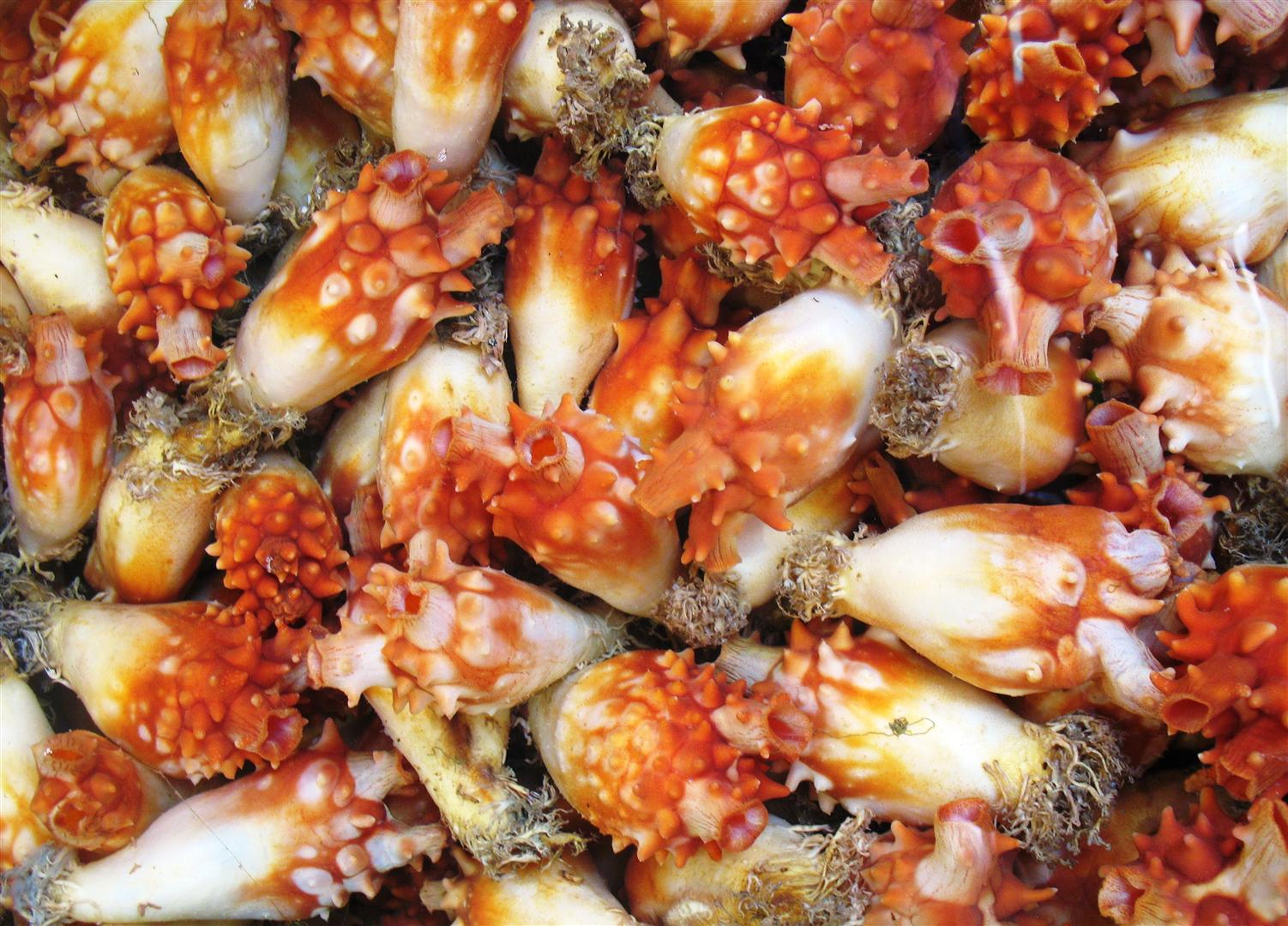 Live sea squirt (aka sea pineapple) for sale at a market, Busan, South Korea